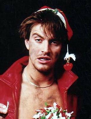 Swedish actor Ola Isedal as a weary Xmas Elf, as released by image creator Lars Jacob ProdPlace: Stockholm, Sweden